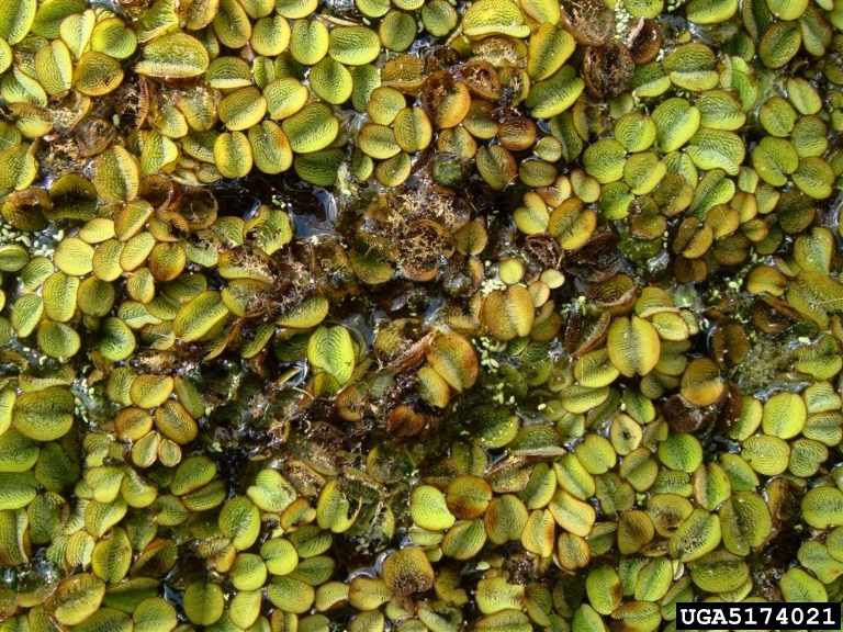 Samea multiplicalis